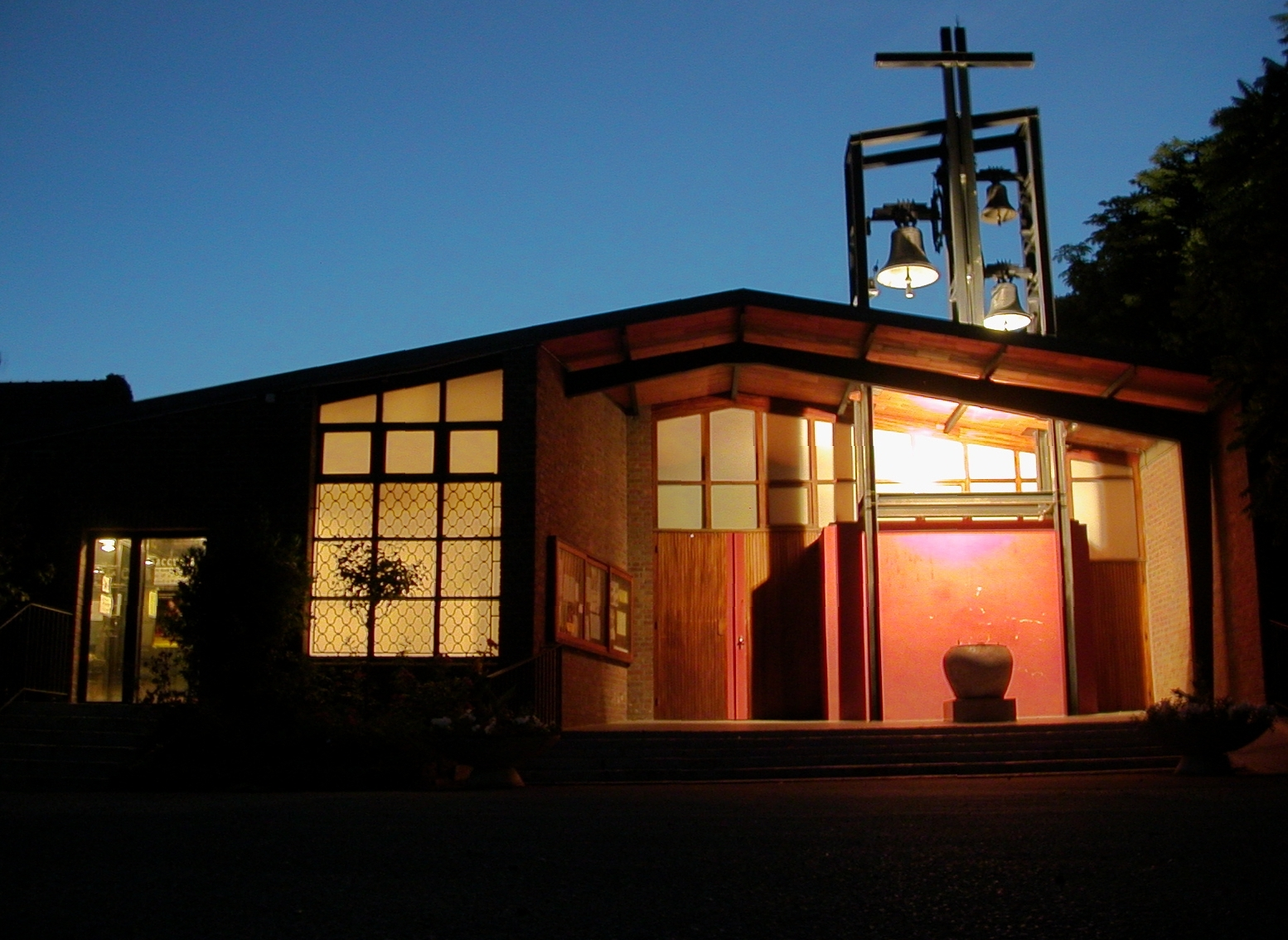 Sainte-Thérèse church in Rueil-Malmaison